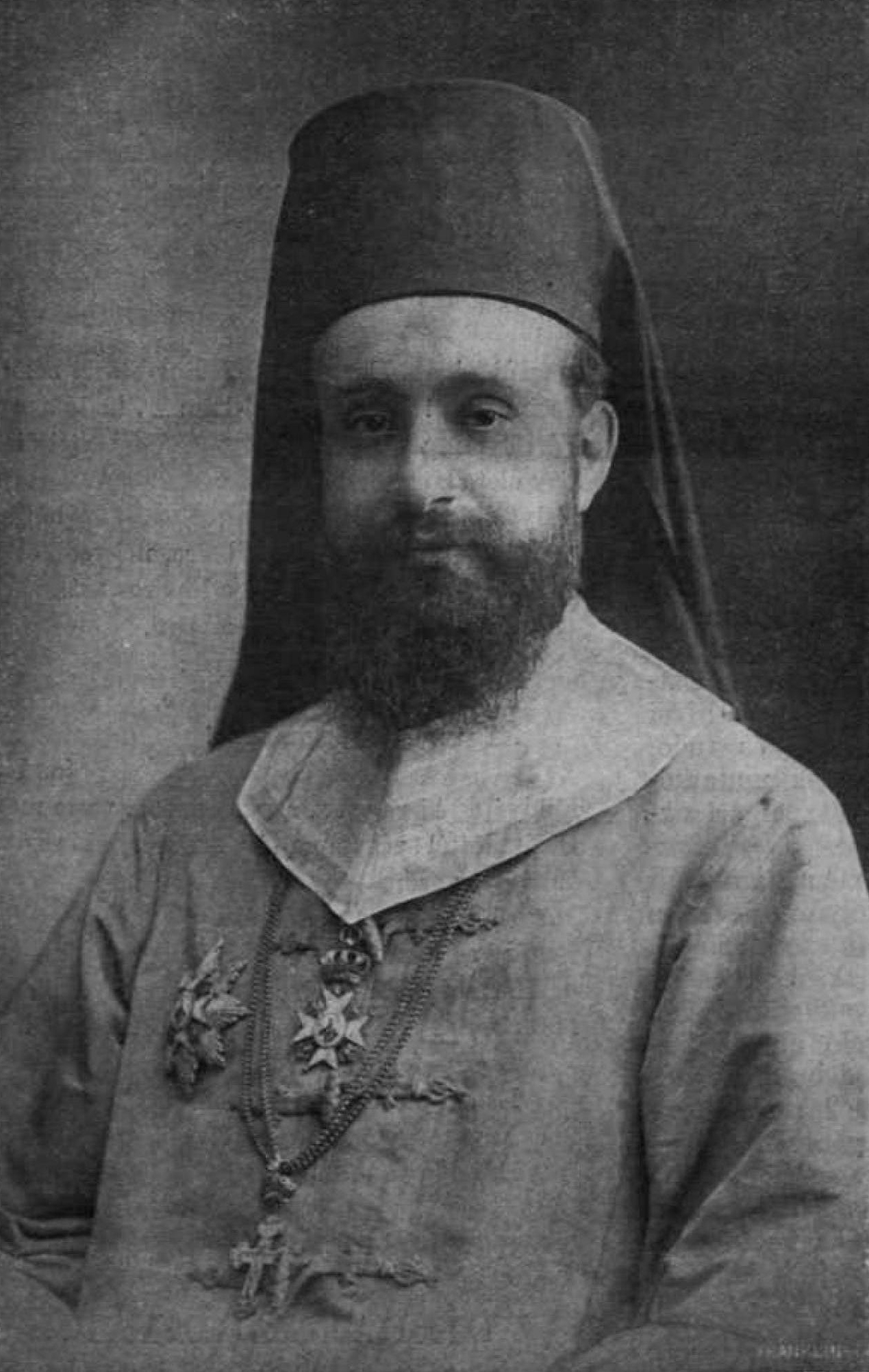 Lukijan Bogdanović